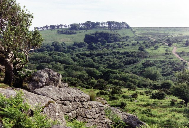 Bag Tor. Bag Tor lies on the very south-east edge of Dartmoor - good flat seating for a picnic. View looking south-west from the tor over the valley of the infant River Sig